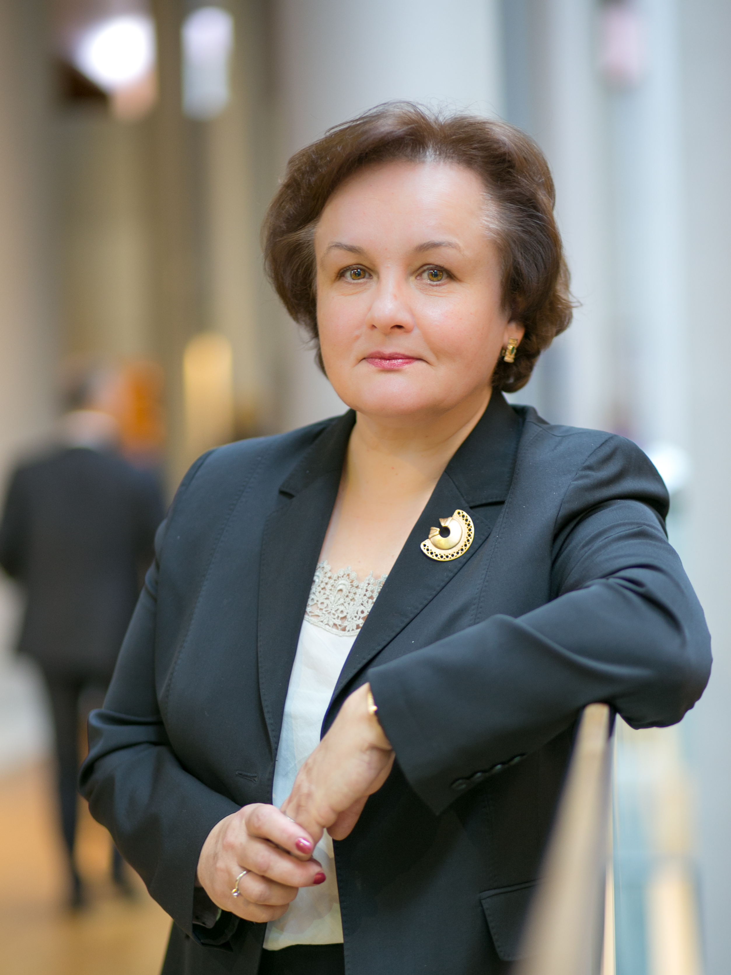 Picture of Ms Laima Andrikienė